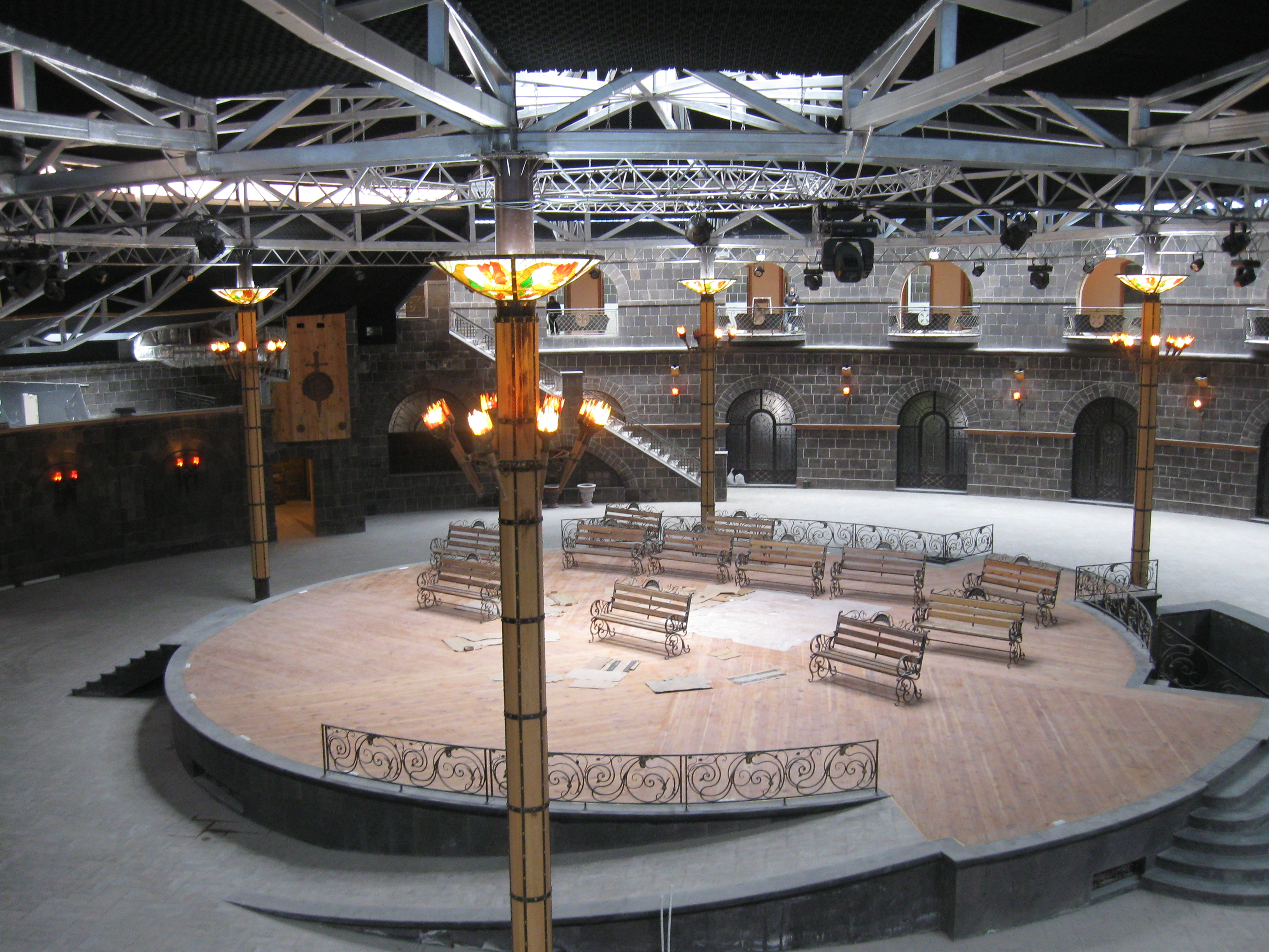 Sev Berd or Black Fortress (Armenian: Սև բերդ